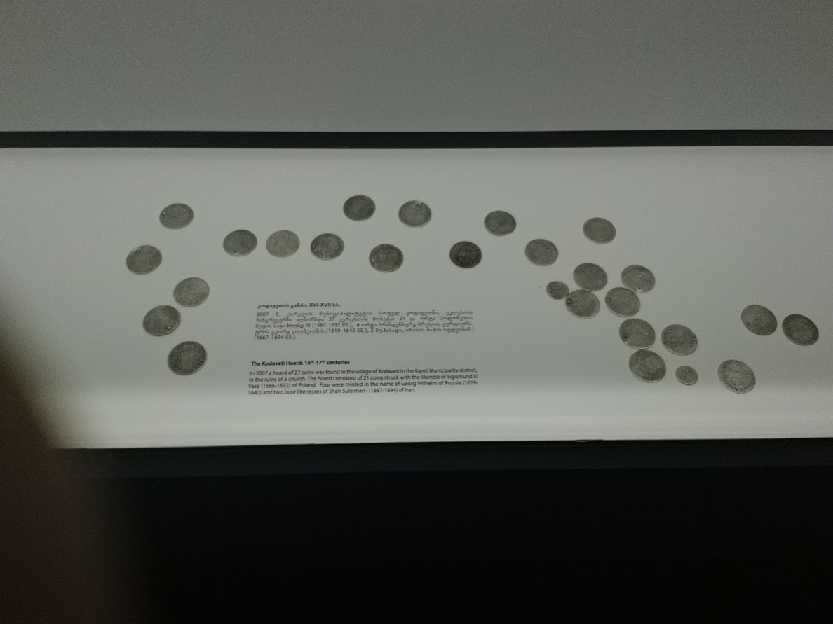 The Kodaveti Hoard